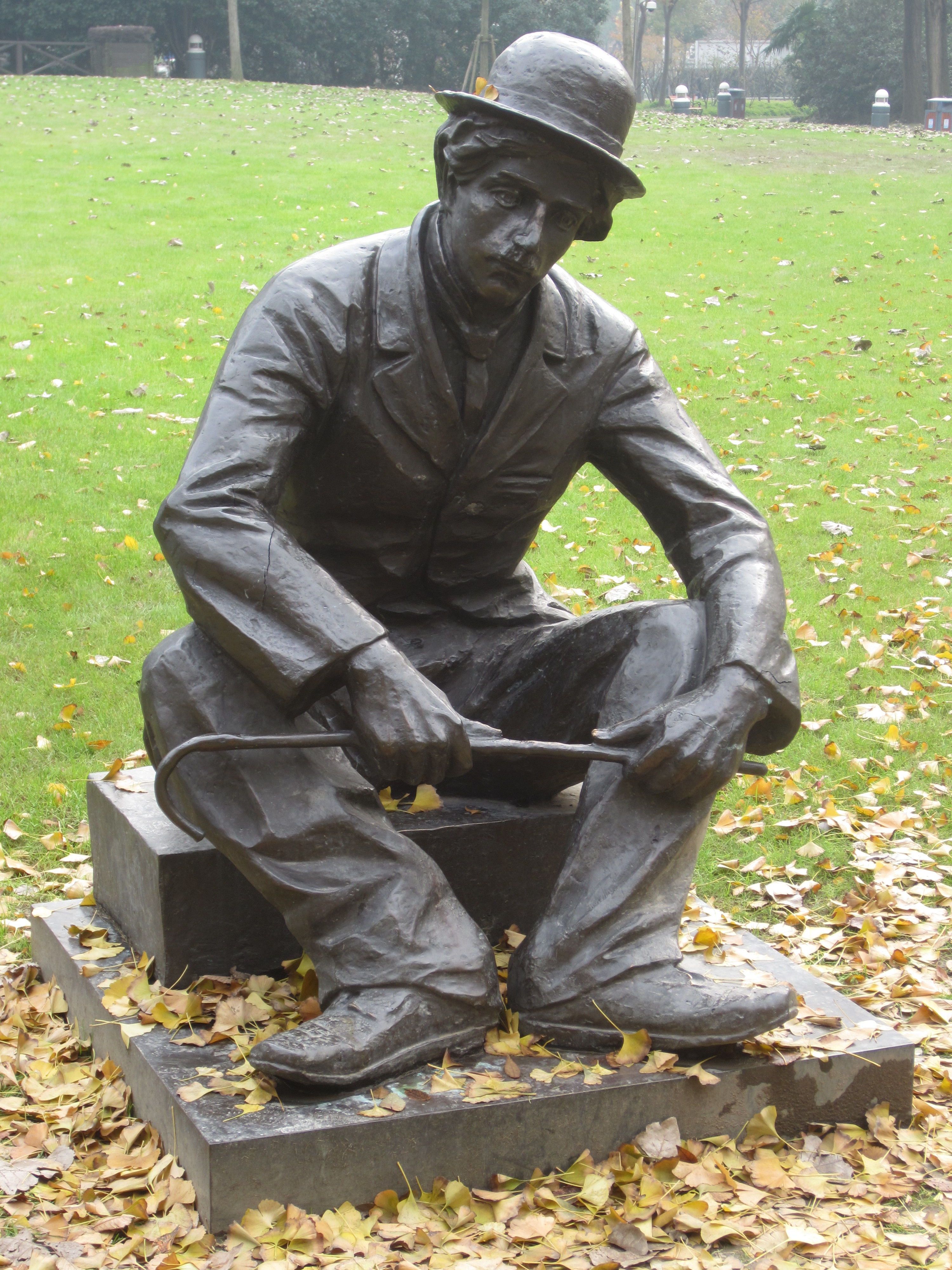 New Town Central Park, Shanghai (December 2015)